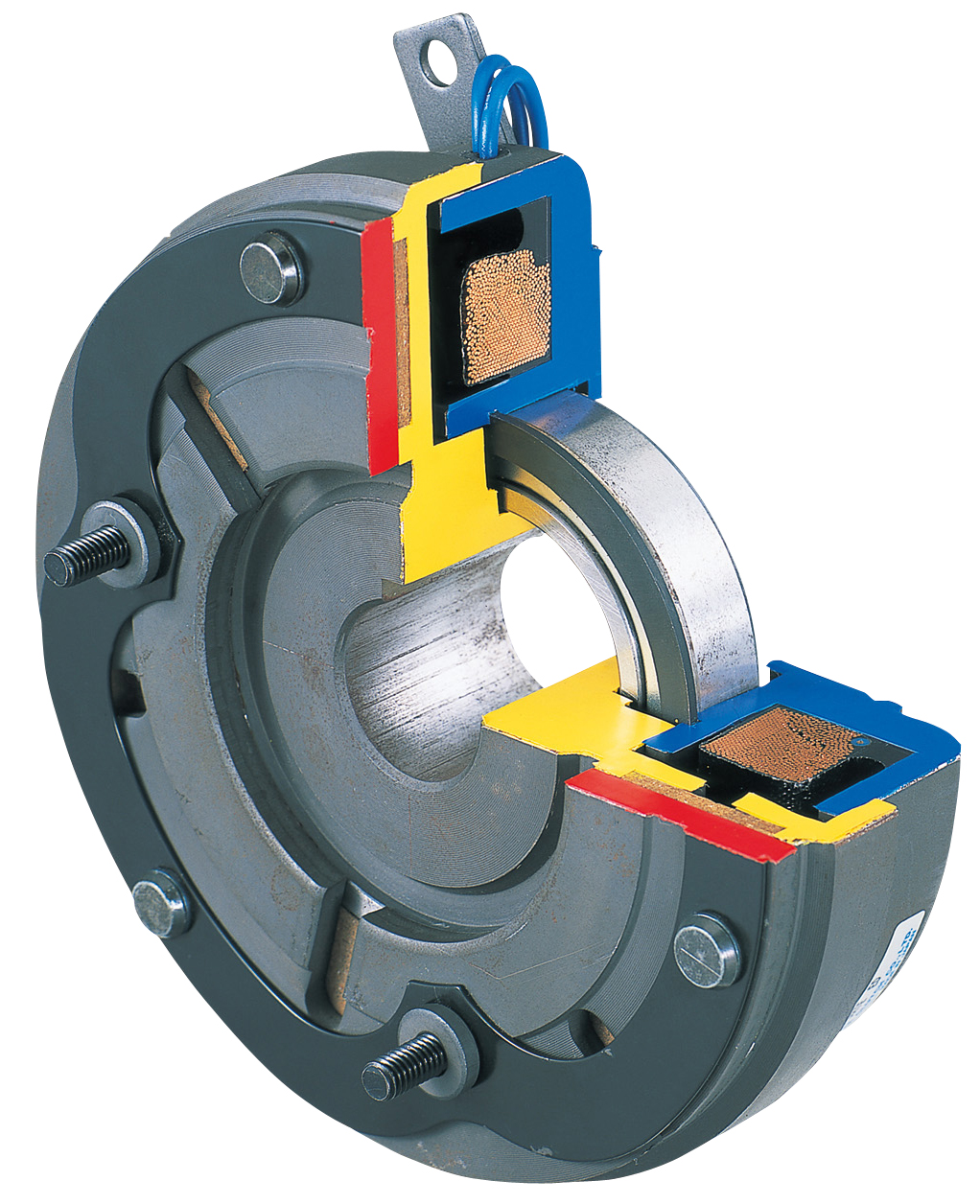 Electromagnetic actuated clutch